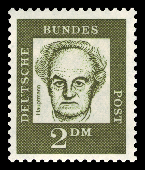 Stamps series of distinguished German Graphics by Michel und Kieser Ausgabepreis: 2 DM First Day of Issue / Erstausgabetag: 12. April 1962 Michel-Katalog-Nr: 362